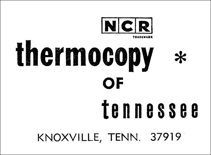 Thermocopy of Tennessee's first corporate logo, designed shortly after the company's founding in 1964.